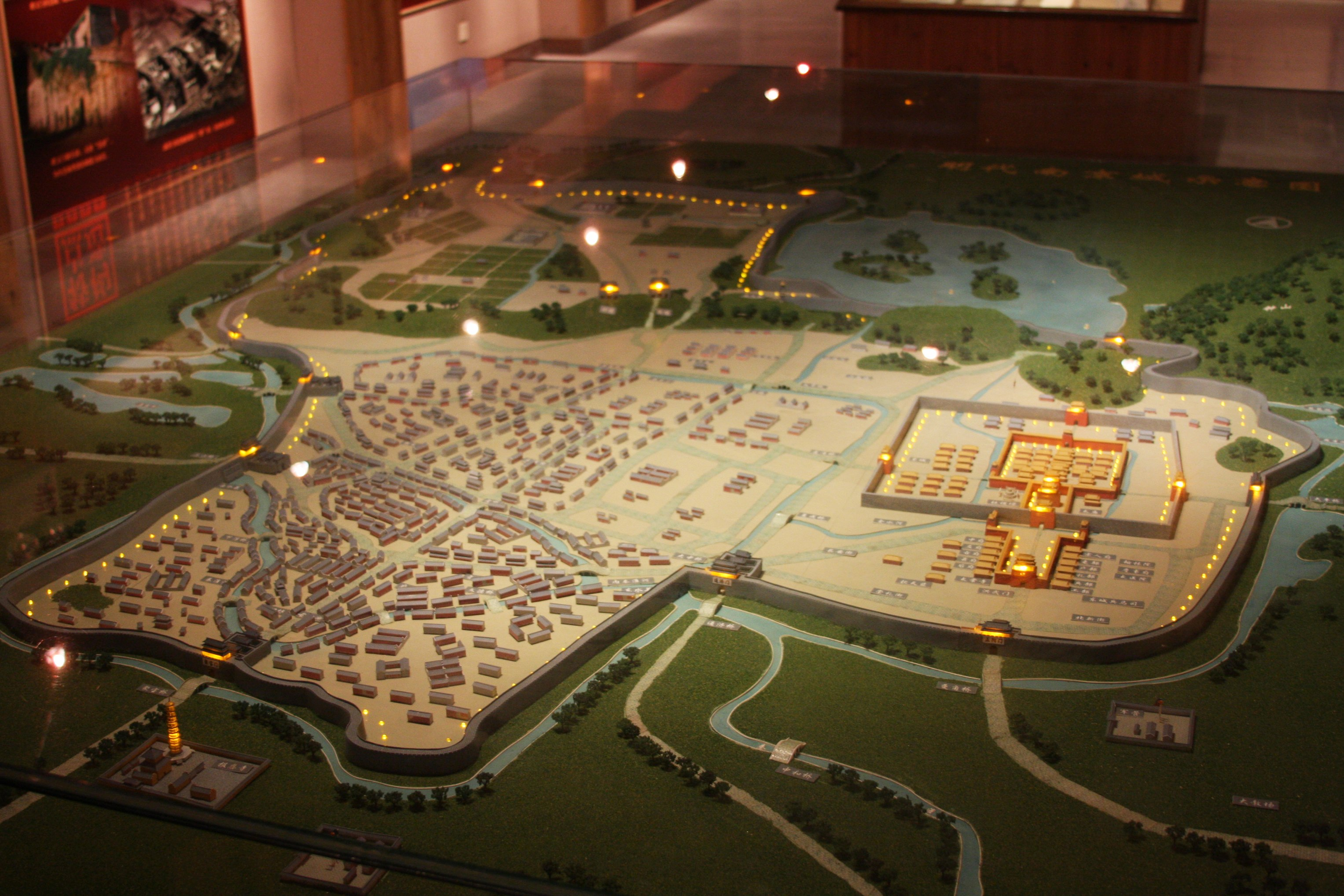 What Nanjing looked like in the Ming Dynasty